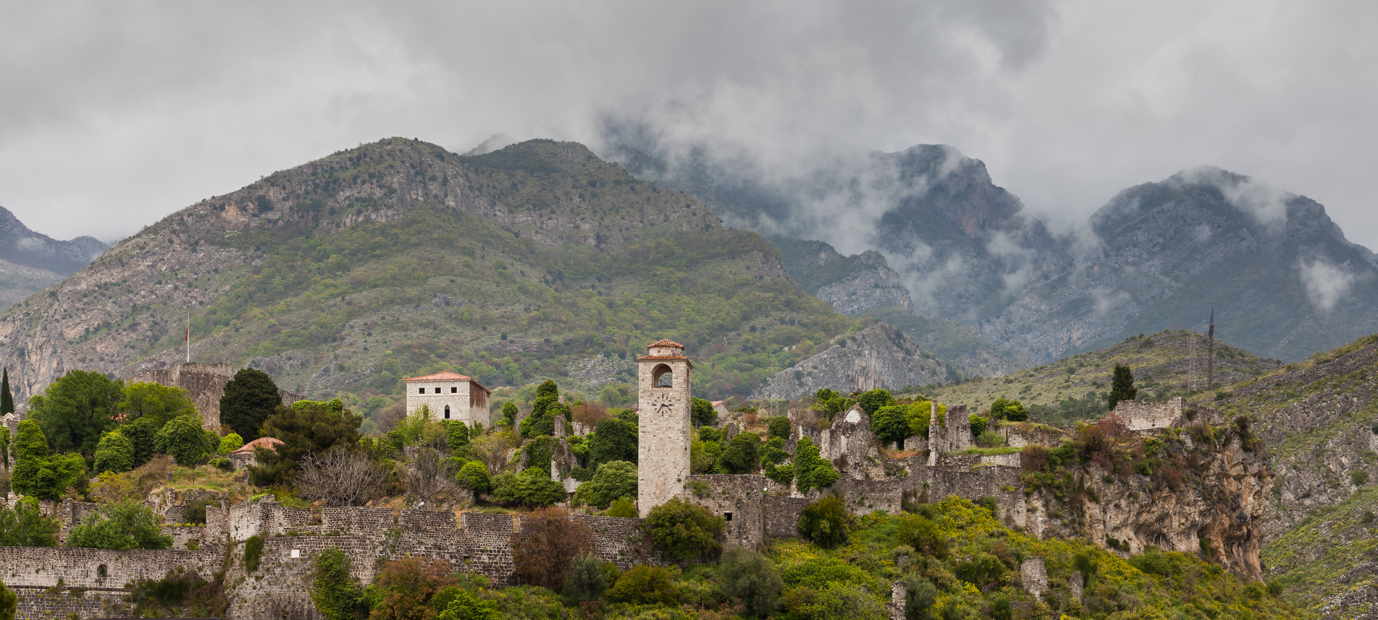 Stari Bar, Montenegro